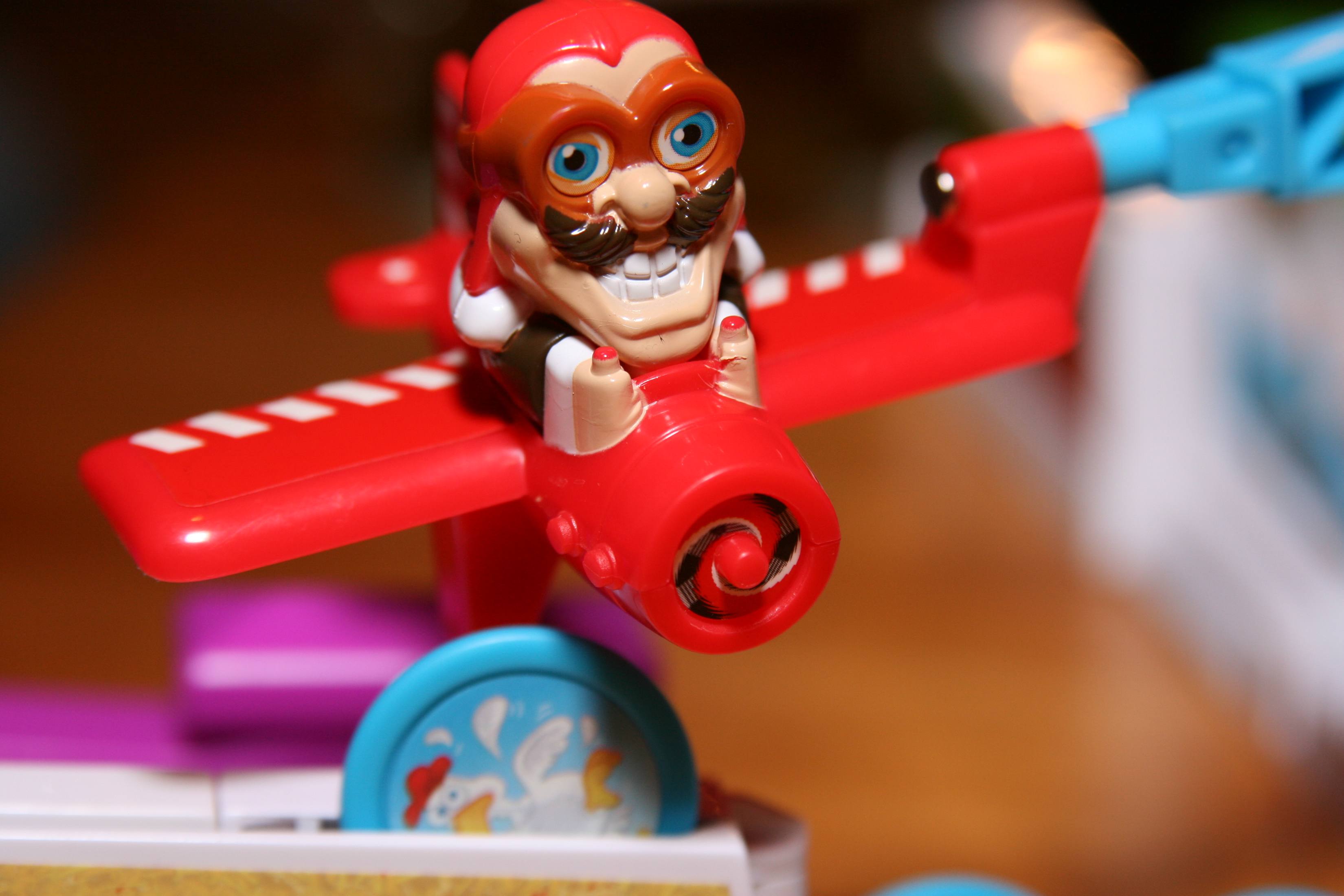 Looping Louie, a childrens game by MB games. 1994 Kinderspiel des Jahres Award in Germany.